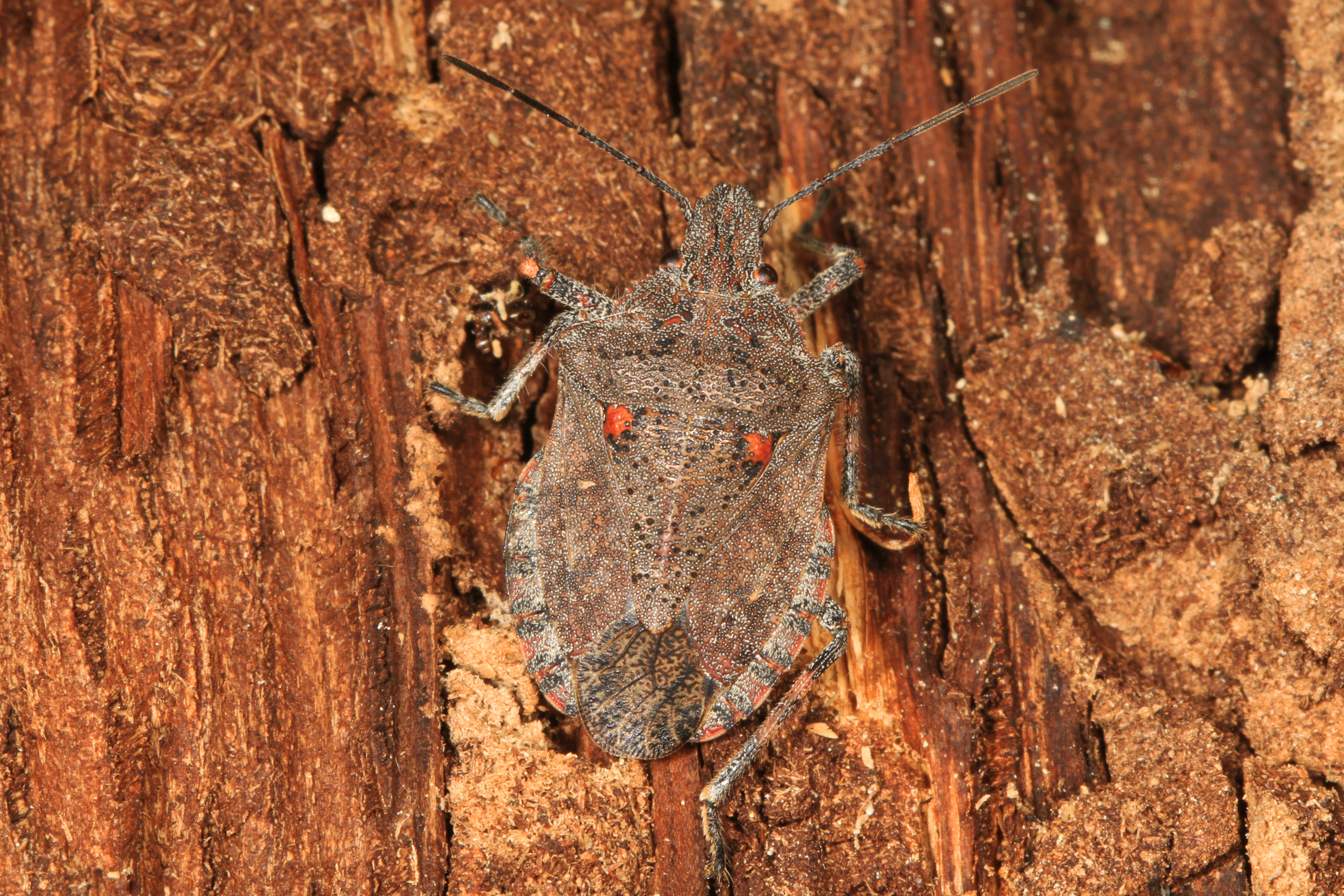 Stink Bug - Brochymena quadripustulata, Julie Metz Wetlands, Woodbridge, Virginia. We don't usually see many insects here in February, but it was an unusually warm day - 70 F.